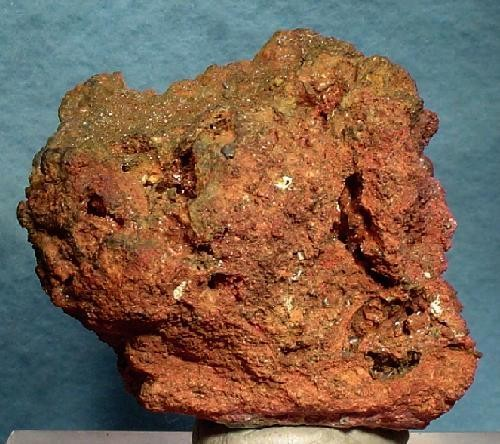 Minium, Lead Locality: Cedar City, Iron County, Utah, USA (Locality at ) Size: 6.0 x 4.8 x 4.5 cm. Minium is a RARE secondary alteration product of lead. This brick-red specimen is SOLID minium, either as microcrystals or in massive form. Sparkly lead microcrystals RICHLY cover one face and are scattered on other faces and in vugs on this rare mineral from a VERY UNCOMMON Utah locality - the iron mines near Cedar City. The iron mines operated from 1851 through the 1980s. Ex. Charles Hansen Collection, a noted California collector. Hefty for the size (lead, of course) at 303 grams or 10.7 ounces.